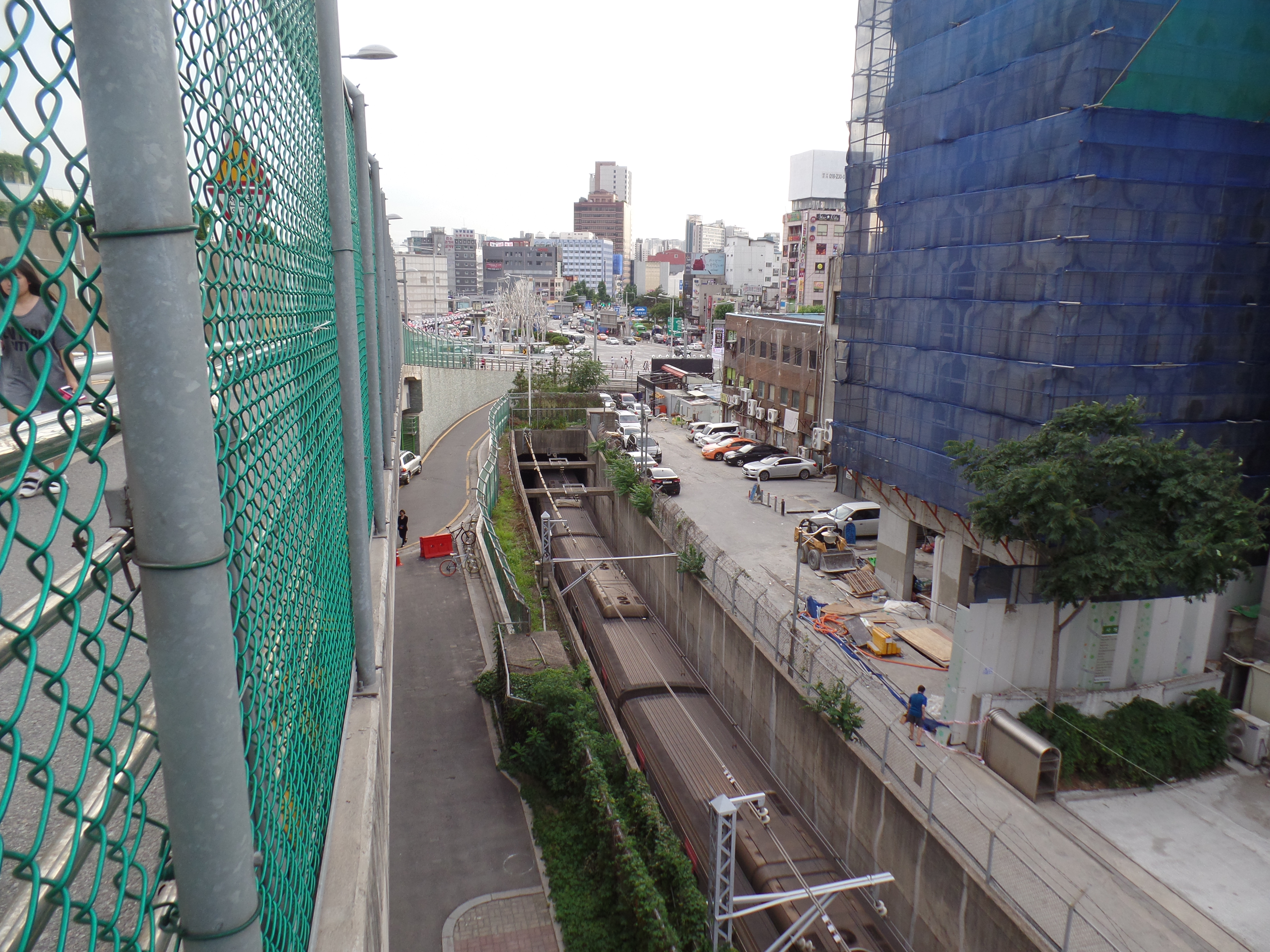 Seoul Metro Line 1 Underground Section Exit in Cheongnyangni with Korail Electric Commuter Rail Car